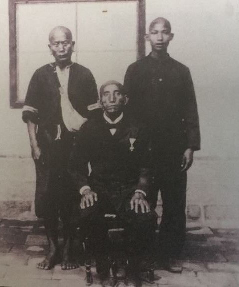 Photo of Jagarushi Guri Bunkiet, in Japanese colonial period of Taiwan.